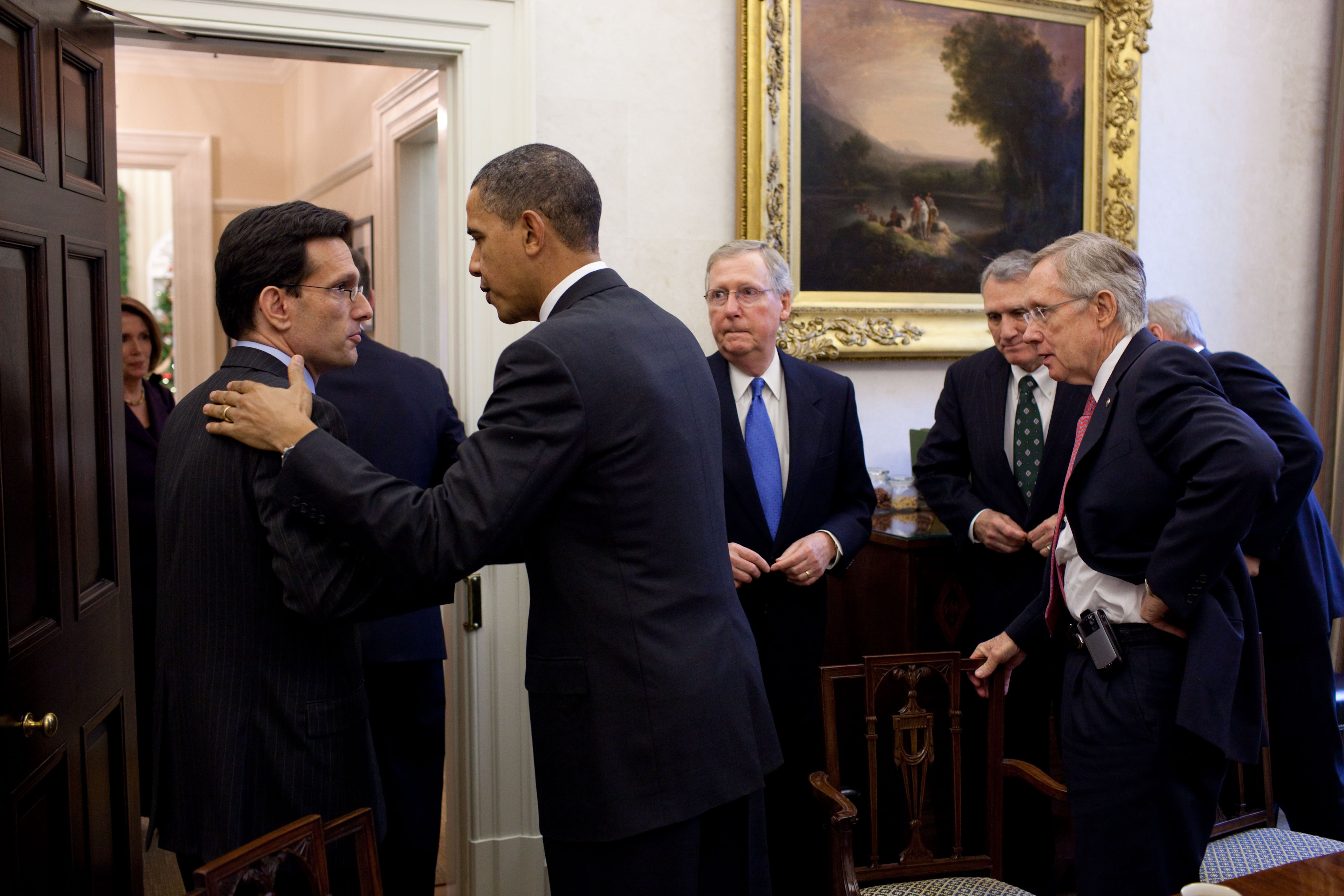 President Barack Obama talks with Rep. Eric Cantor, R-Va., Republican Whip, at the conclusion of a meeting with bipartisan Congressional leadership in the Oval Office Private Dining Room, Nov. 30, 2010. Listening at right are Sen. Mitch McConnell, R-Ky., Republican Leader; Sen. Jon Kyl, R-Ariz., Republican Whip; and Sen. Harry Reid, D-Nev., Majority Leader. (Official White House Photo by Pete Souza) This official White House photograph is in the public domain from a copyright perspective, so while restrictions such as personality or privacy rights may apply, in general, manipulations are allowed.